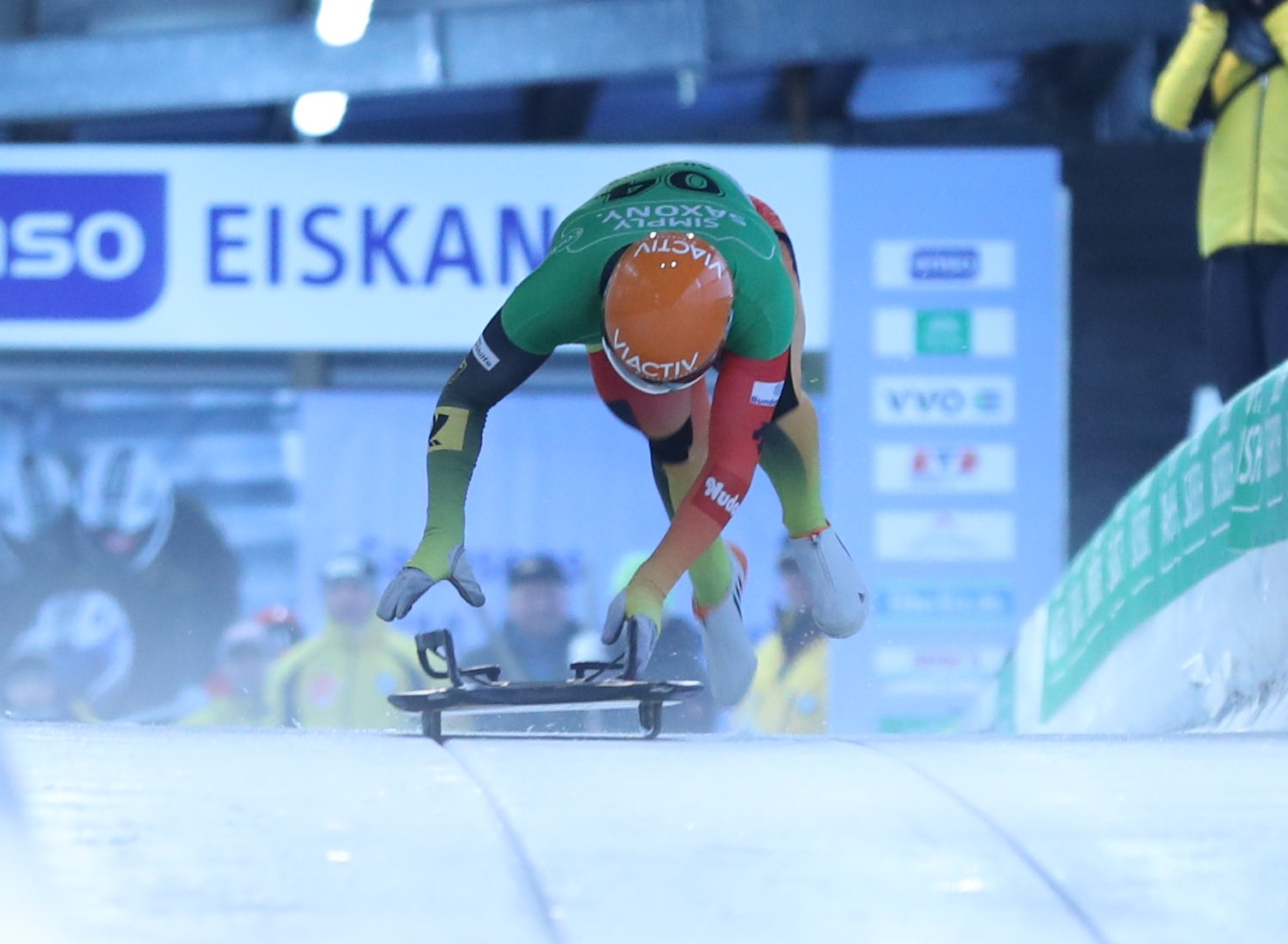 1st run at the Men's competition at the German Skelton Championships 2018/19 in Altenberg